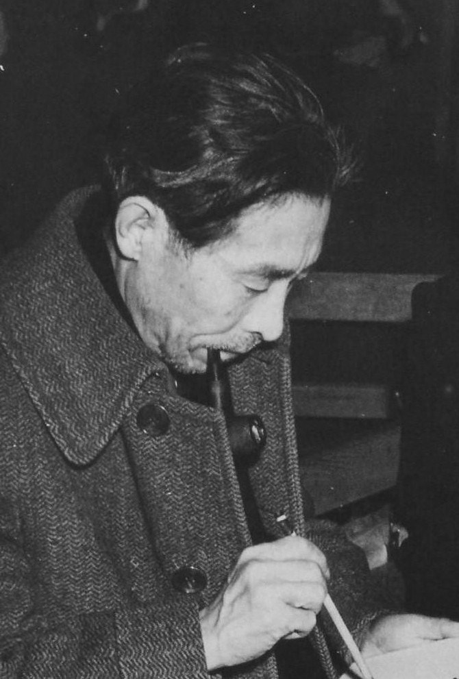 Kunio Kishida (Japanese Playwright and writer) to respond to the sign of female fans.